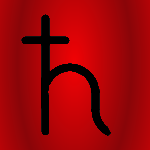 Astrological simbol of saturn. Own work